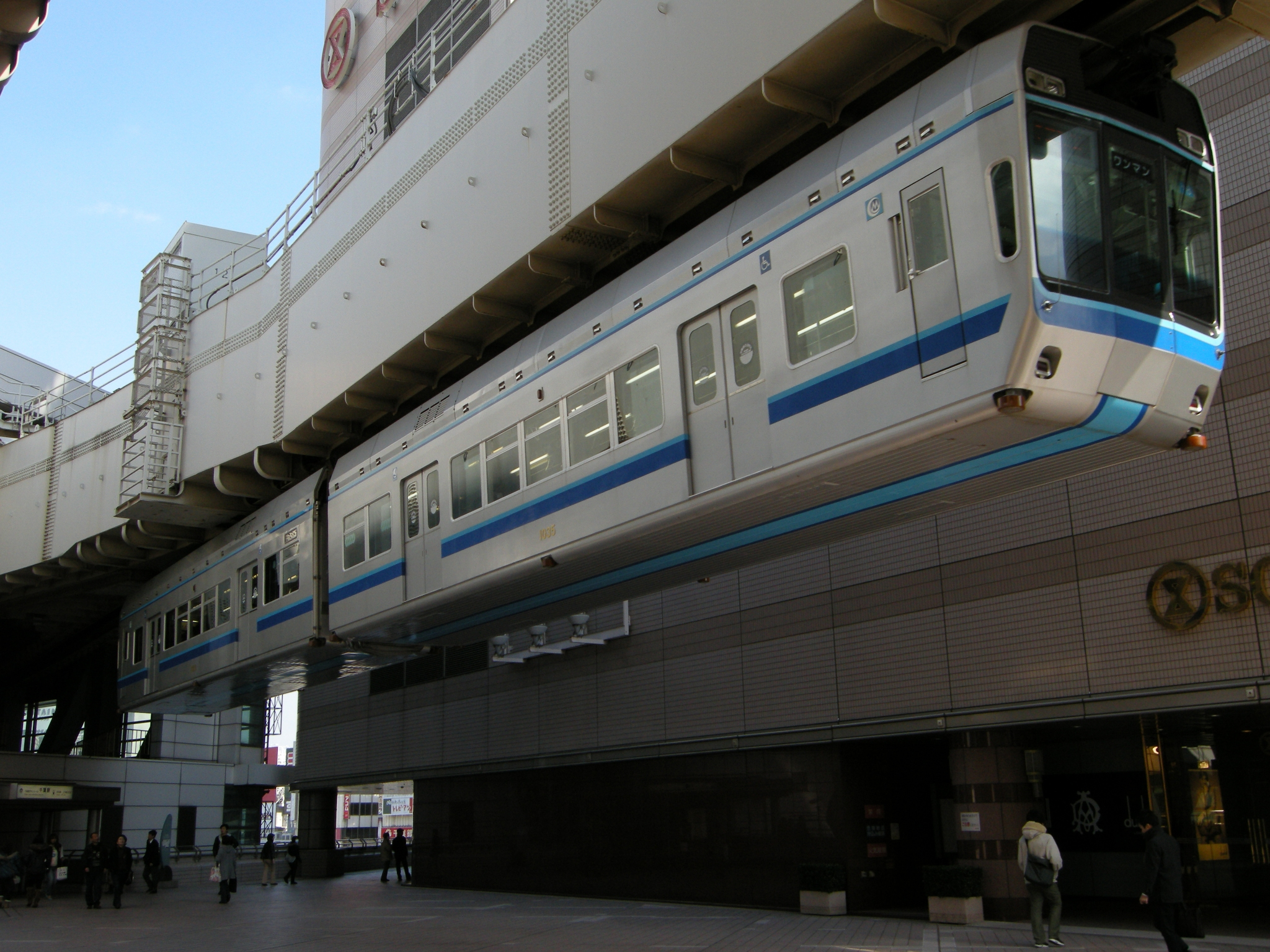 Chiba Urban Monorail 1000 Series EC